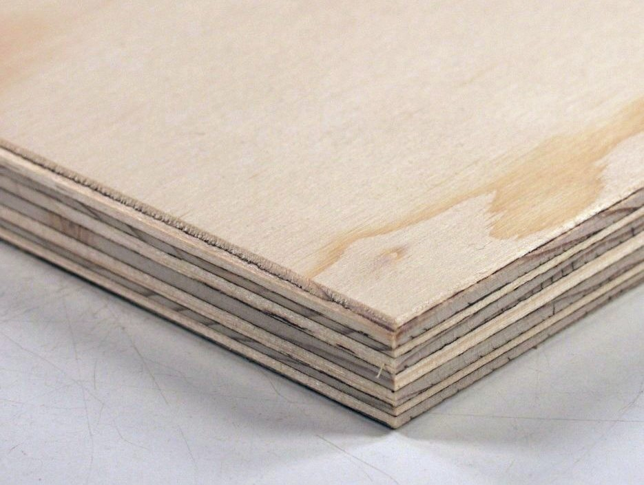 Finnish spruce plywood